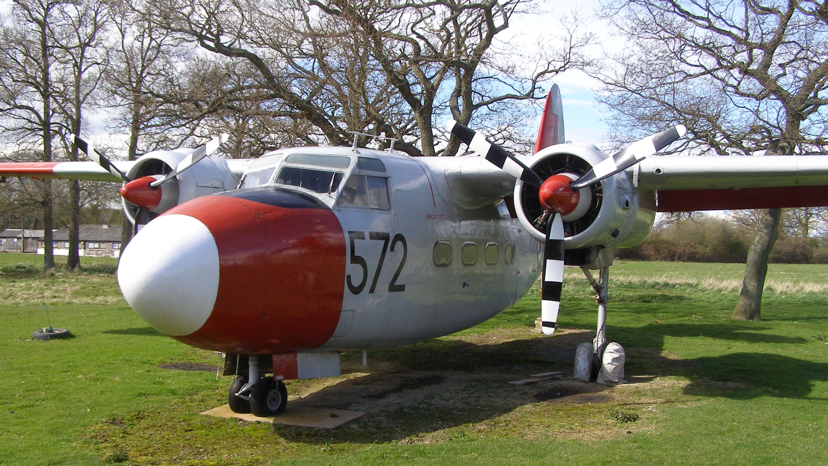 Percival Sea Prince at the Gatwick Aviation Museum, Surrey, England.